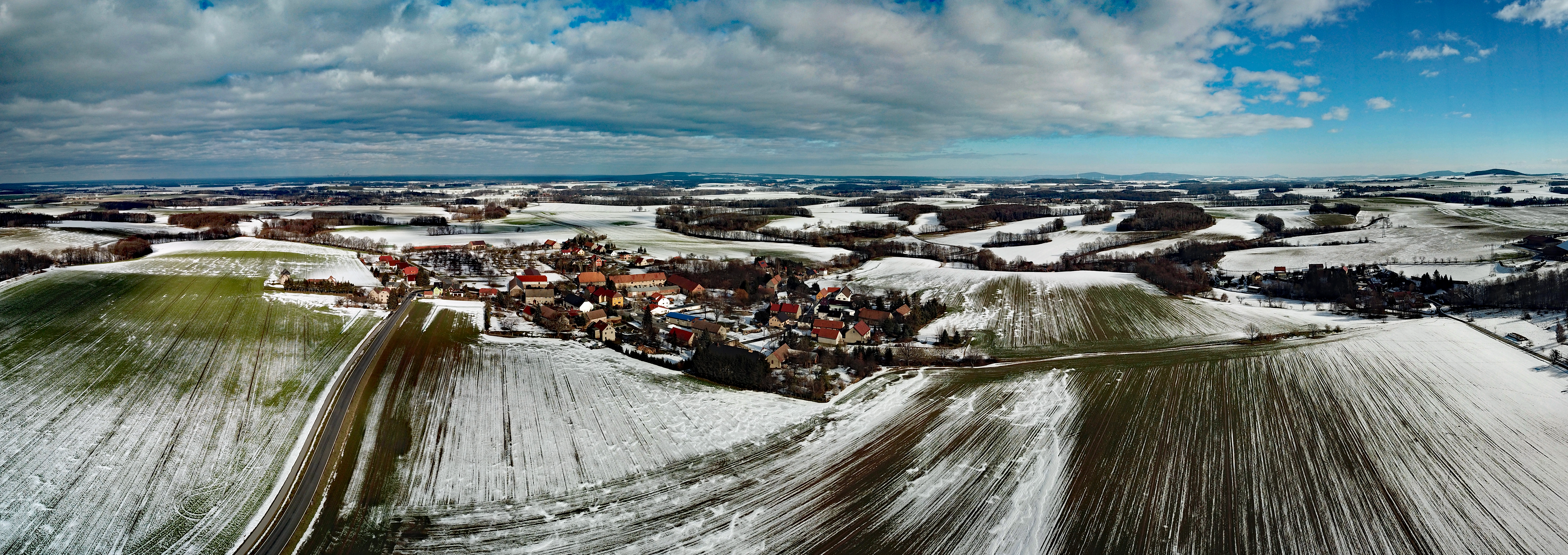 Rodewitz (Hochkirch, Saxony, Germany) Hornjoserbsce: Powětrowy wobraz Rodec pola Bukec Dieses Foto wurde mit einem Quadcopter innerhalb der RMZ des Flugplatzes EDAB aufgenommen. Der Flugleiter wurde am Aufnahmetag telephonisch über Ort und Zeit informiert und hat zugestimmt. Der Flug erfolgte auf Grundlage der Allgemeinverfügung der Landesdirektion Sachsen zur Erteilung der Betriebserlaubnis für unbemannte Luftfahrtsysteme und Flugmodelle gemäß § 21a LuftVO und Zulassung von Ausnahmen von Betriebsverboten gemäß § 21b LuftVO für den Freistaat Sachsen.